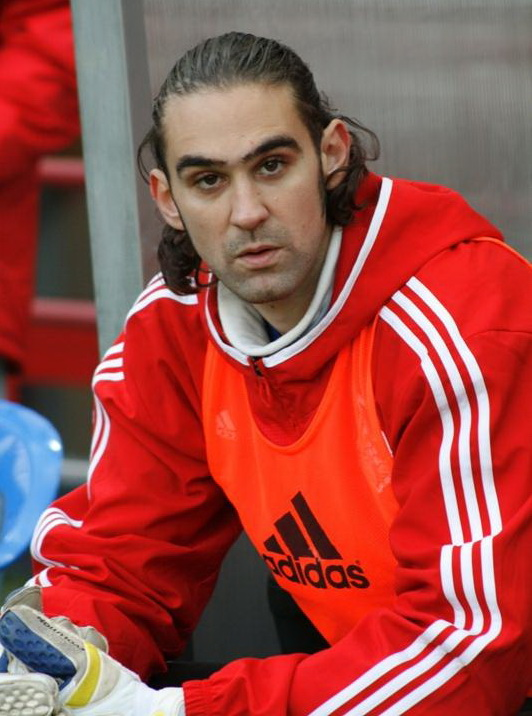 Ivan Pelizzoli